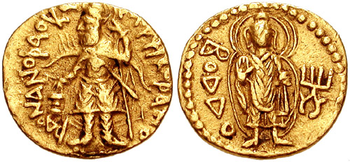 Coin of the Kushan king Kanishka with Greek lettering "BODDO" (i.e. Buddha).